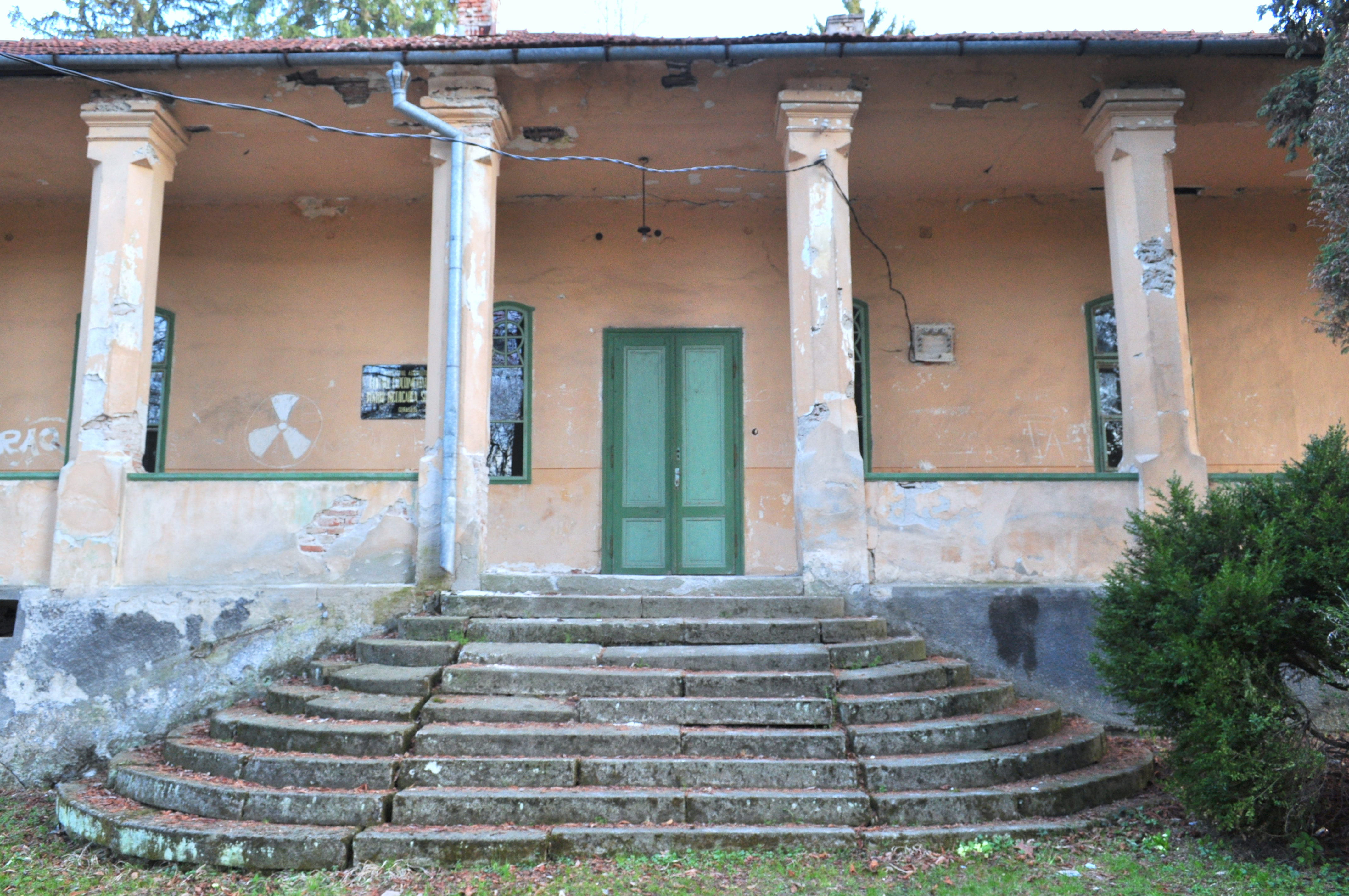 Klobosiski mansion snd domain in Gurasada, Hunedoara county